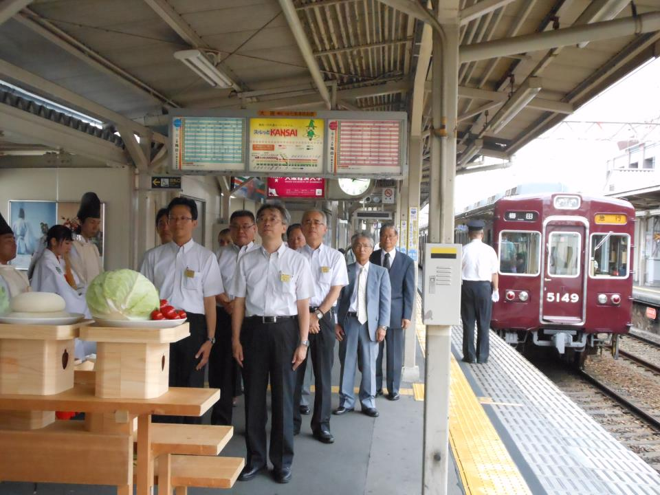 Hattori Hankyu Electric Railway Station. Offering prayers for operational safety.